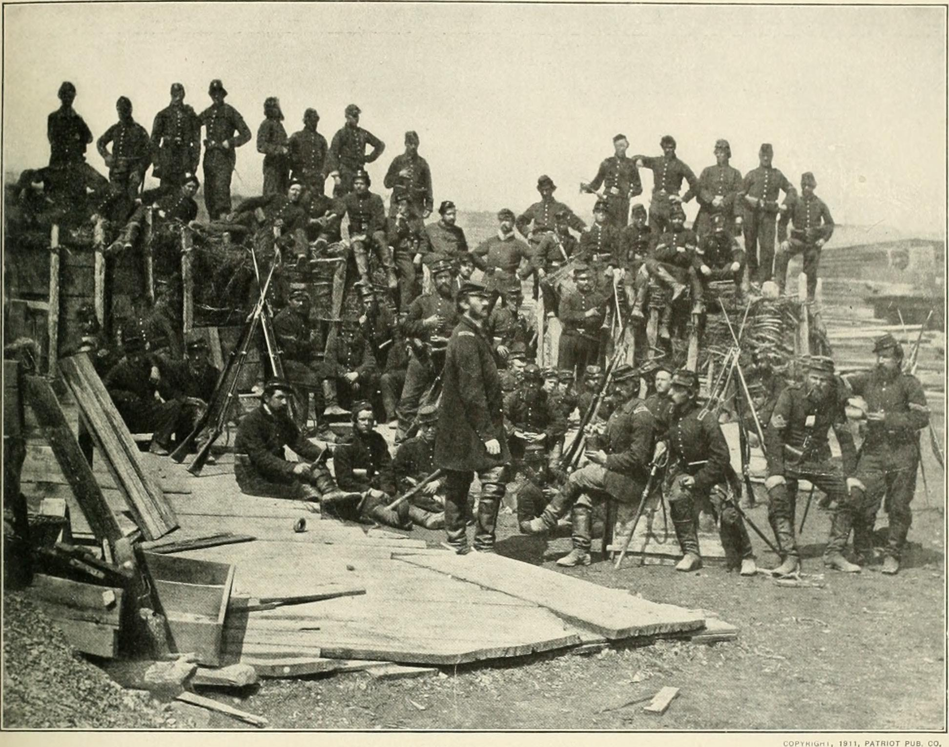 Title: The photographic history of the Civil War : thousands of scenes photographed 1861-65, with text by many special authorities Year: 1911 (1910s) Authors: Miller, Francis Trevelyan, 1877-1959 Lanier, Robert S. (Robert Sampson), 1880- Subjects: United States -- History Civil War, 1861-1865 Pictorial works United States -- History Civil War, 1861-1865 Publisher: New York : Review of Reviews Co. Text Appearing Before Image: ' Text Appearing After Image: THE FIGHTING FORTY-FIRST C (^ompany of the Forty-first New York after the SecondBattle of Bull Run, August 30, 1S62. When the troops of Gen-erals Milroy and Schurz were hard pressed by overpowering num-bers and exhausted by fatigue, this New York regiment, beingordered forward, quickly advanced with a cheer along the War-renton Turnpike and deployed about a milewest of the field of the confiict of July 21,1861. The fighting men replied with an-swering shouts, for with the regiment thatcame up at the double quick galloped abattery of artillery. The charging Con-federates were held and this position wasas.sailed time and again. It became thecenter of the sanguinary combat of theday, and it was here that the Bull-Dogsearned their name. Among the first torespond to Lincolns call, they enlisted inJune. 61, and when their first service wasover they stepped forward to a man, speci-fying no term of service but putting theirnames on the Honor Roll of For the War.